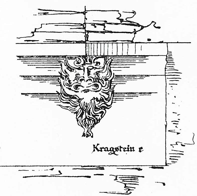 Repro of a architectural drawing 1908 in OberweselOberwesel, Rhine Valley/Germany.